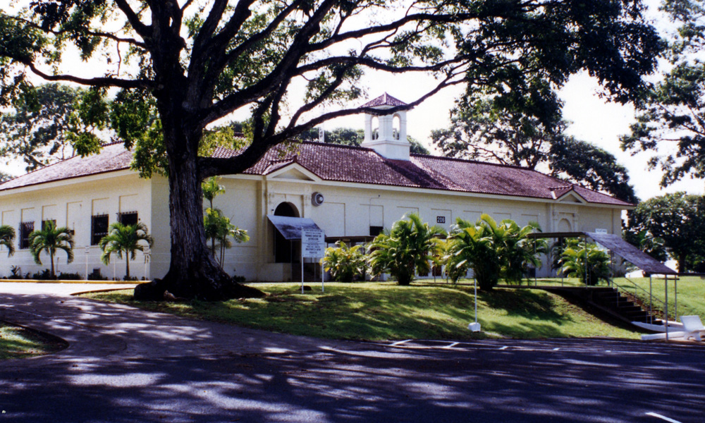 Gatun: Bldg. 206 on Jadwin Road, the former Gatun Elementary School (July 1997).